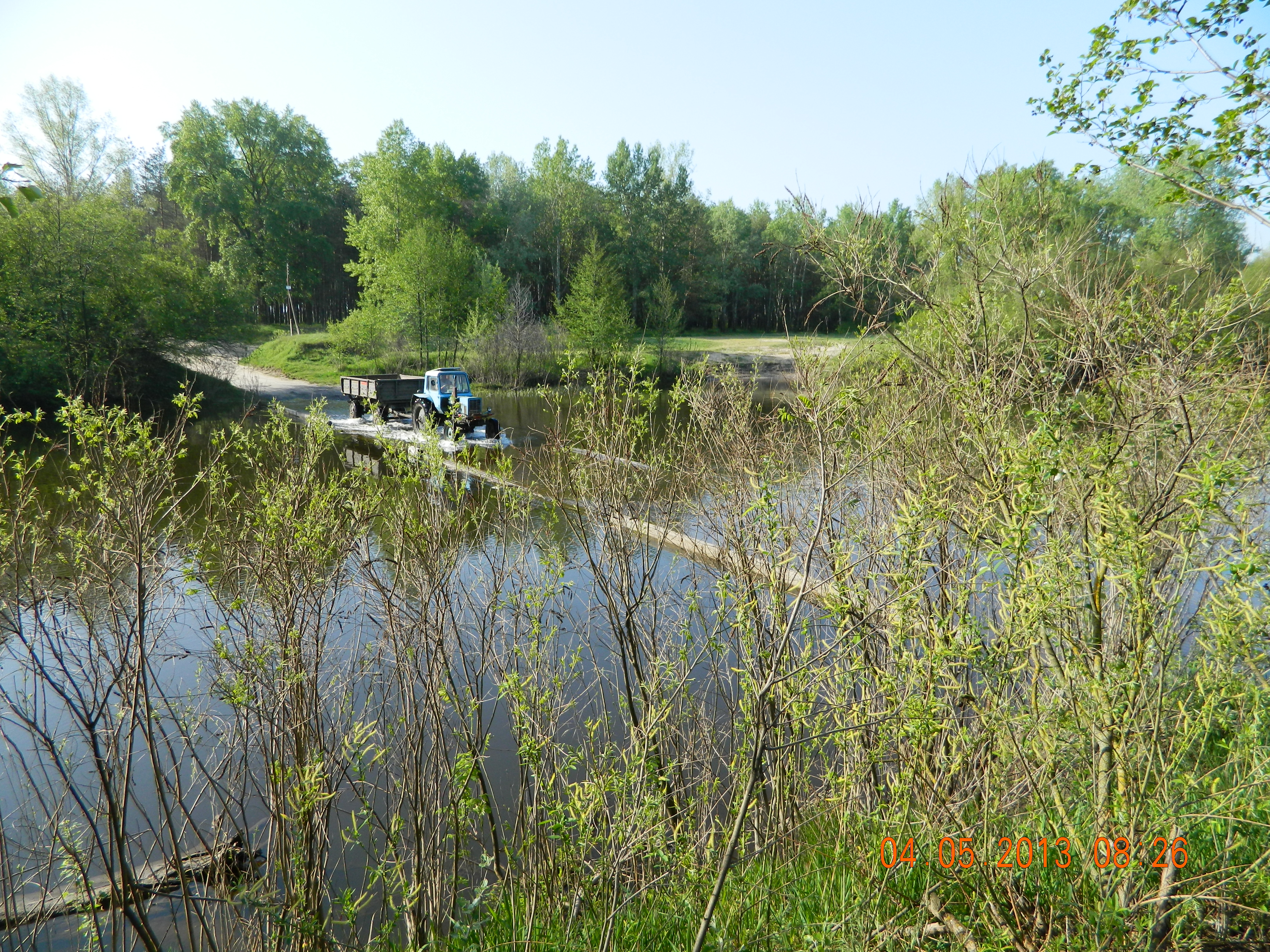 Bridge over Vorskla on the road Havrontsi - Glody during the floods in 2013